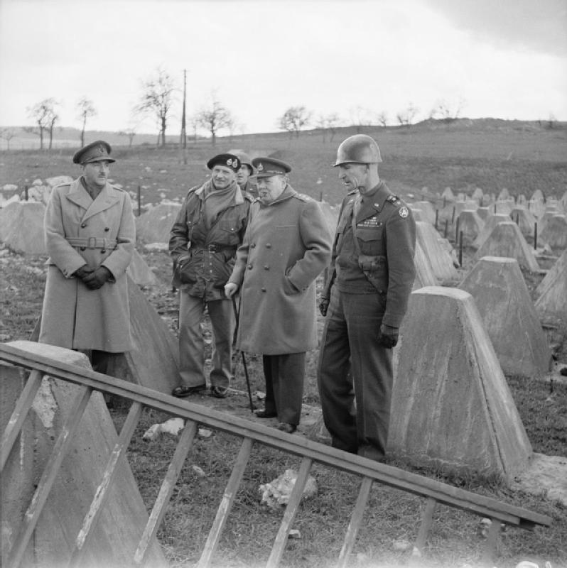 The British Army in North-west Europe 1944-45 Winston Churchill with Field Marshal Sir Alan Brooke, Field Marshal Montgomery and General Simpson (Commanding 9th US Army) among 'dragons teeth' obstacles on the Siegfried Line near Aachen, 4 March 1945.